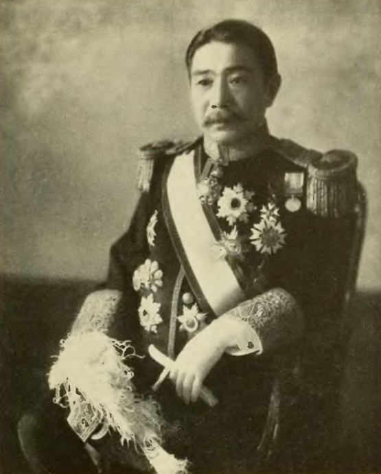 Japanese politician and diplomat Sutemi Chinda.